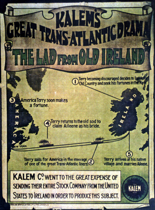 Poster to the film A Lad from of Old Ireland in 1910.